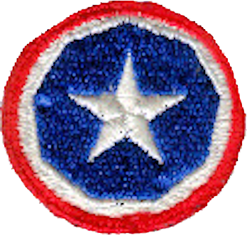 Emblem of the 44th Engineer Group (Construction)